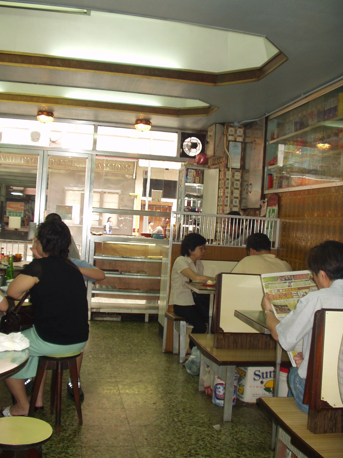 Interior of a Cha Chaan Tengv (Taken by Tsui Sing Yan Eric). San Po Kong, Hong Kong